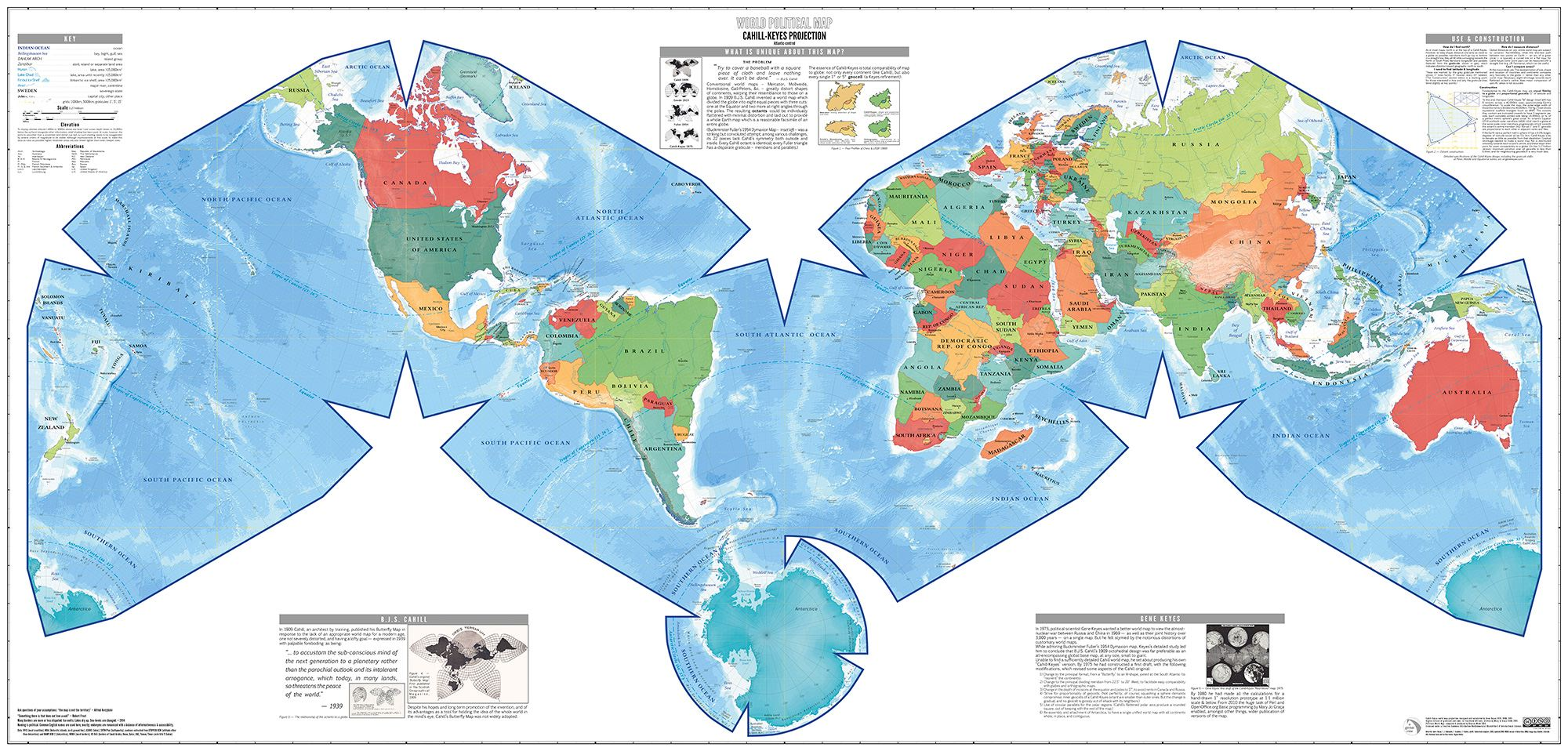 CaGIS award-winning world map designed by Gene Keyes and produced by Duncan Webb.